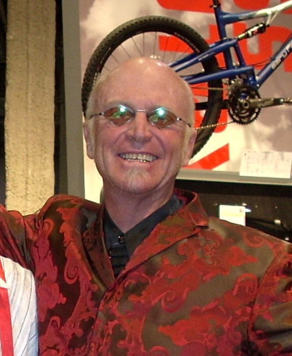 Gary Fisher of Trek Bicycle Corporation